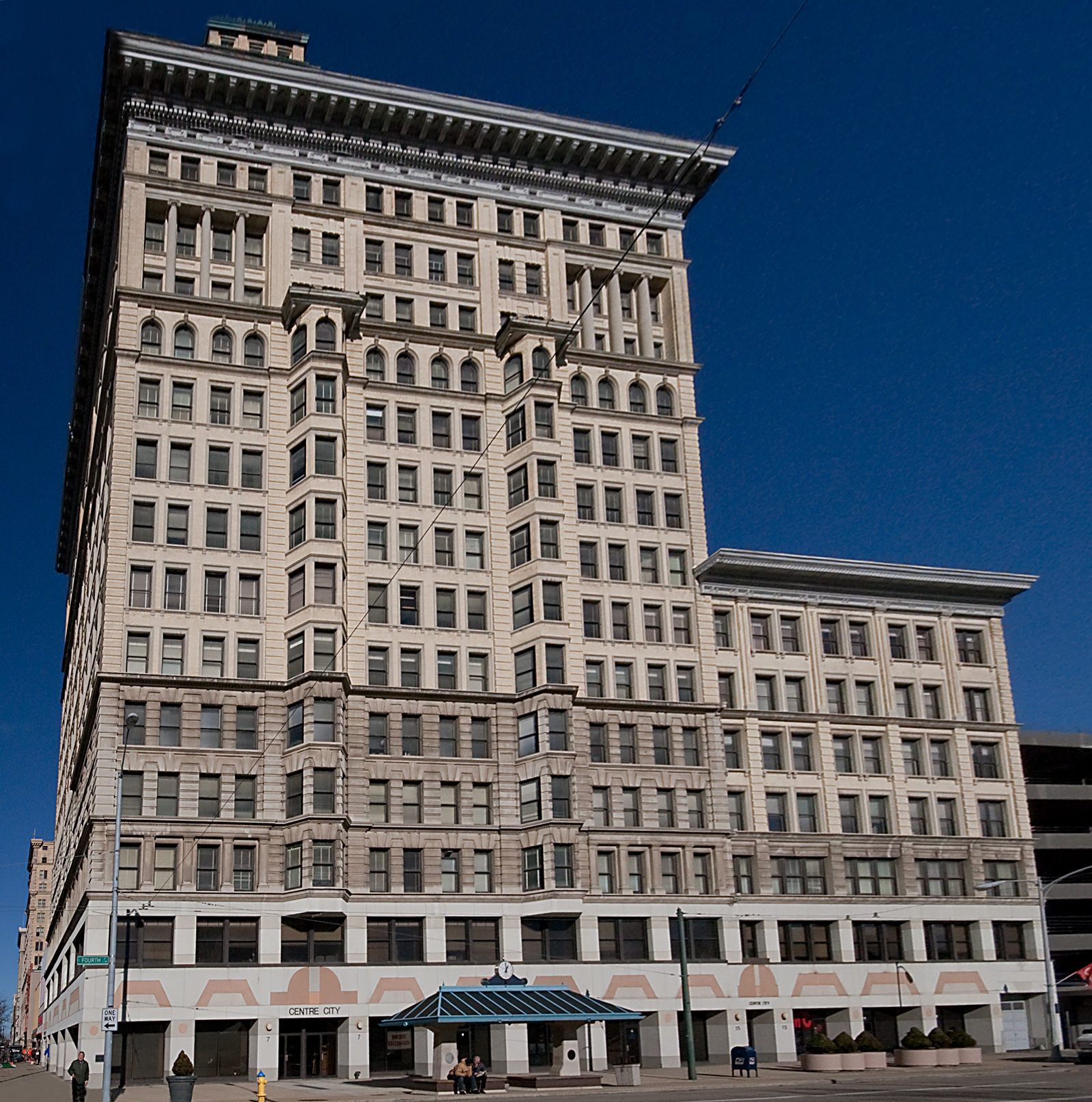 United Brethren Publishing House in Dayton, Oh. Photo by Greg Hume